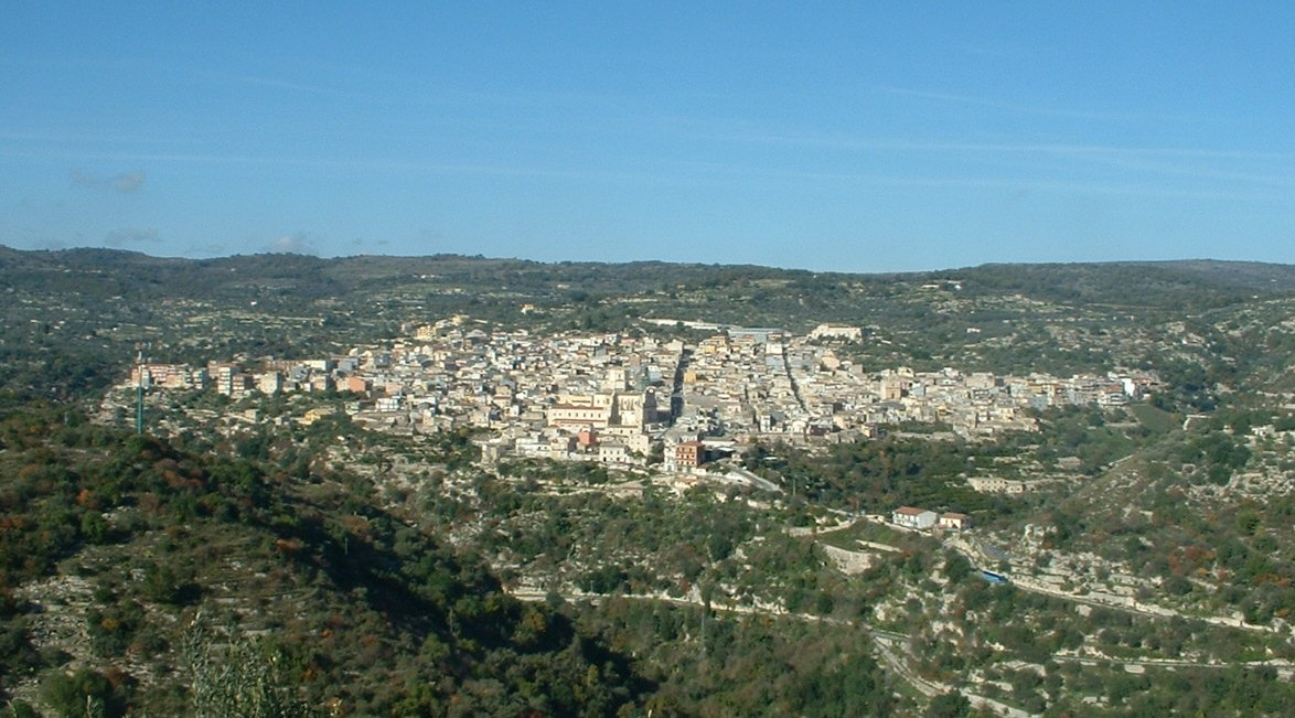 View of Ferla (SR)